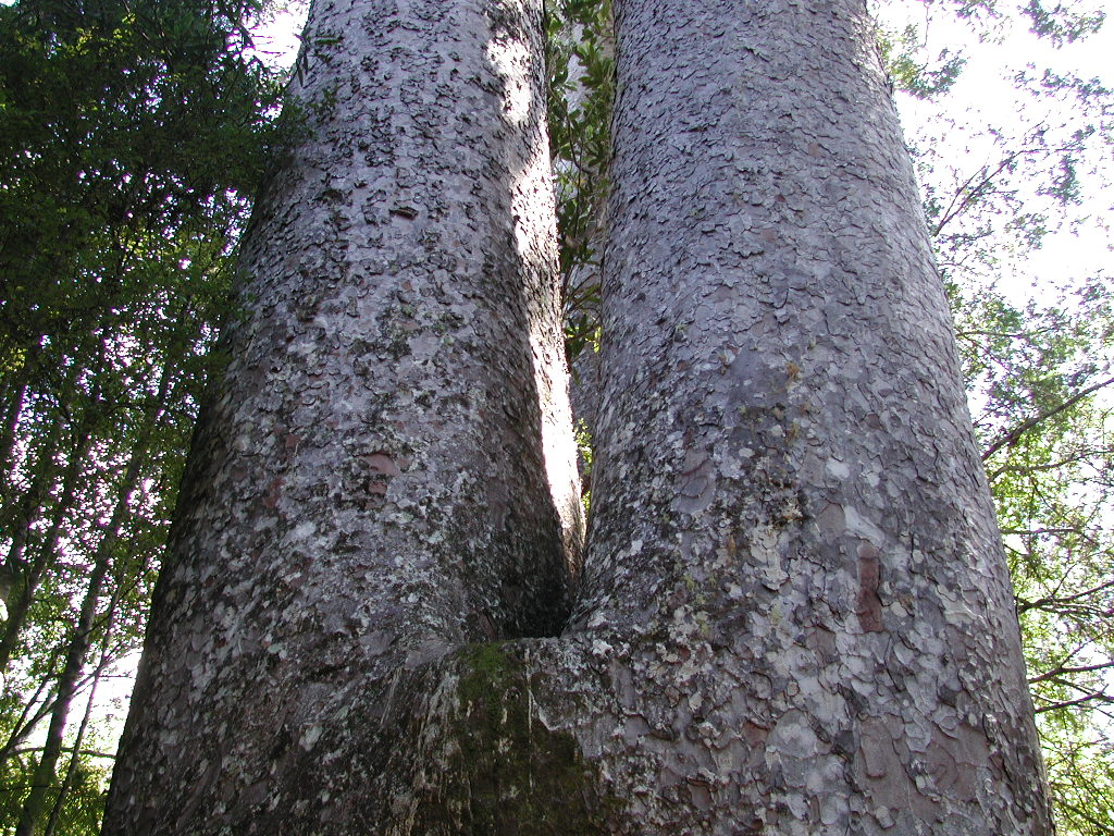 Siamese Kauri trunk near Waiau Kauri grove, Coromandel Peninsula; each trunk is about 1.5 m in diameter